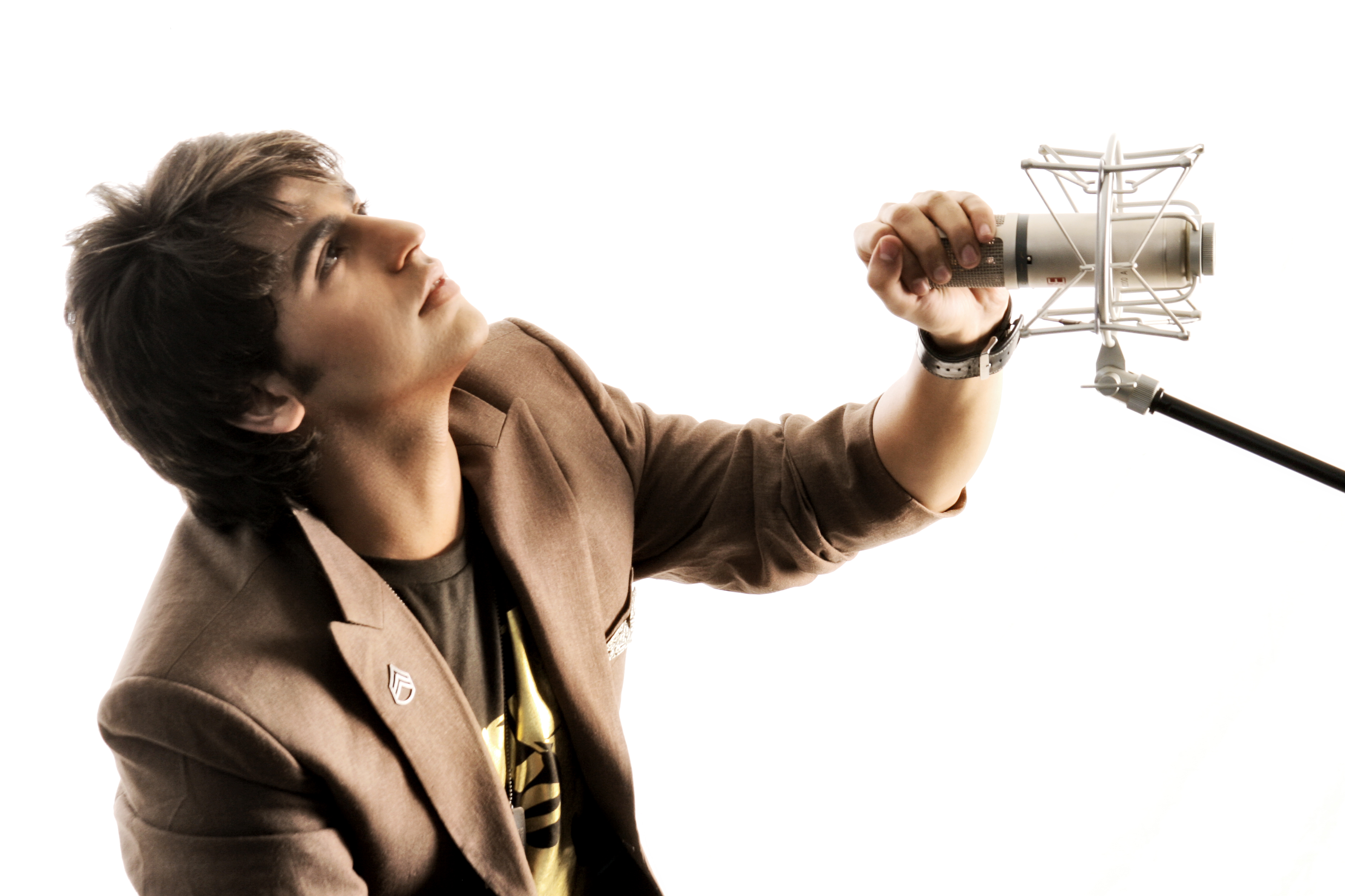 Jal photoshoot